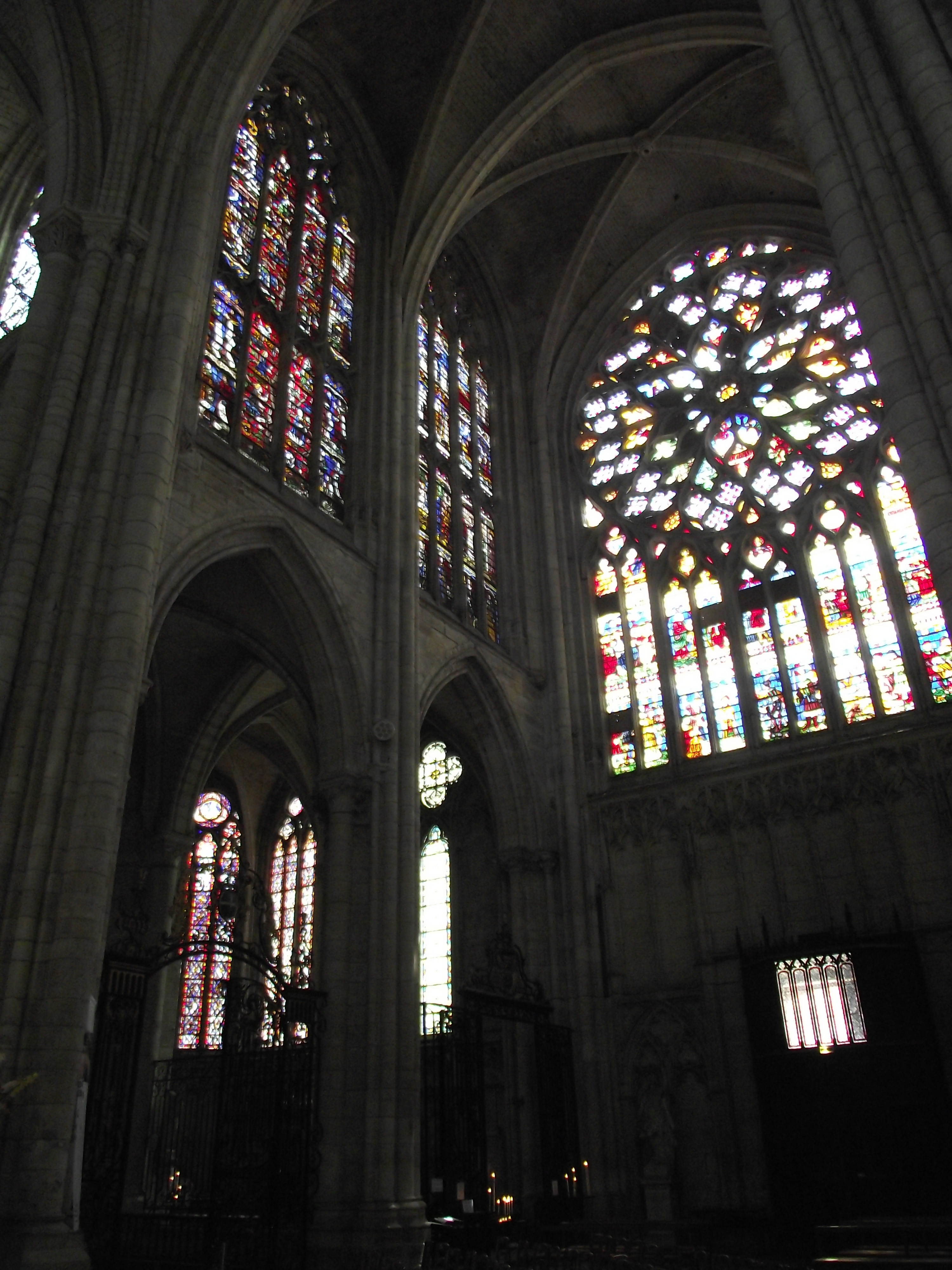 Sens, South Transept of St. Stephen's Cathedral